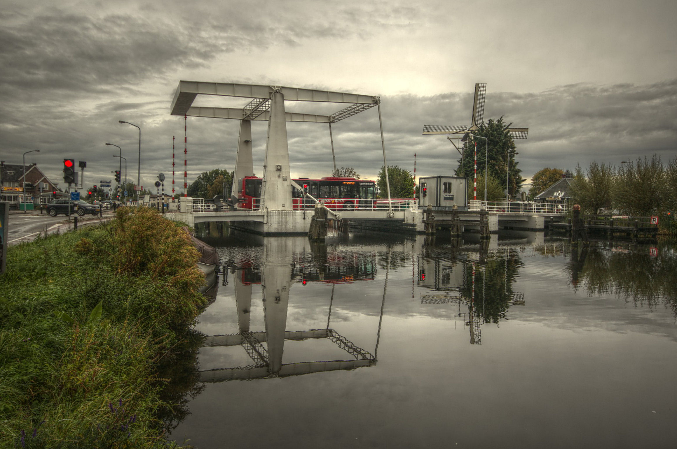 The Sloterbrug that connects the village of Badhoevedorp to Amsterdam in the Netherlands